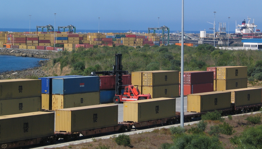 Port of Sines' Railway Platform